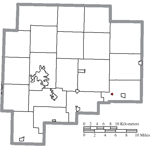 Map of the municipal and township boundaries of Guernsey County, Ohio, United States, as of the 2000 census, with the location of the village of Salesville highlighted. Township borders are shown only in unincorporated areas in order to differentiate incorporated and unincorporated areas more clearly.